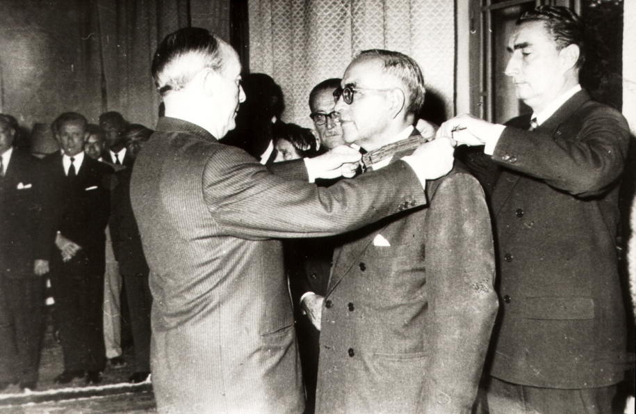 Officier de la Legion d Honneur - Prof Mahmud Hessabi